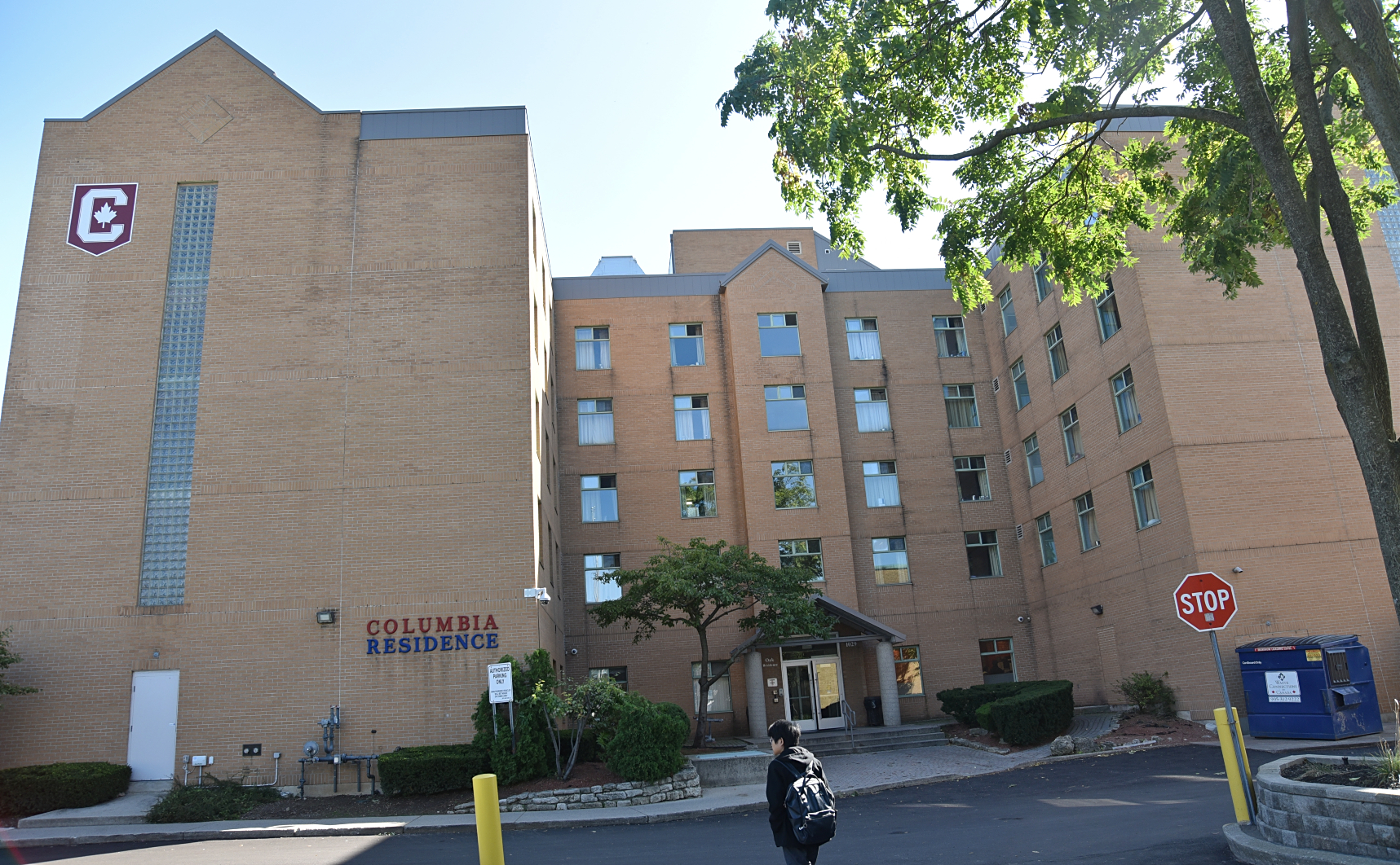 Oak Residence, Columbia International College